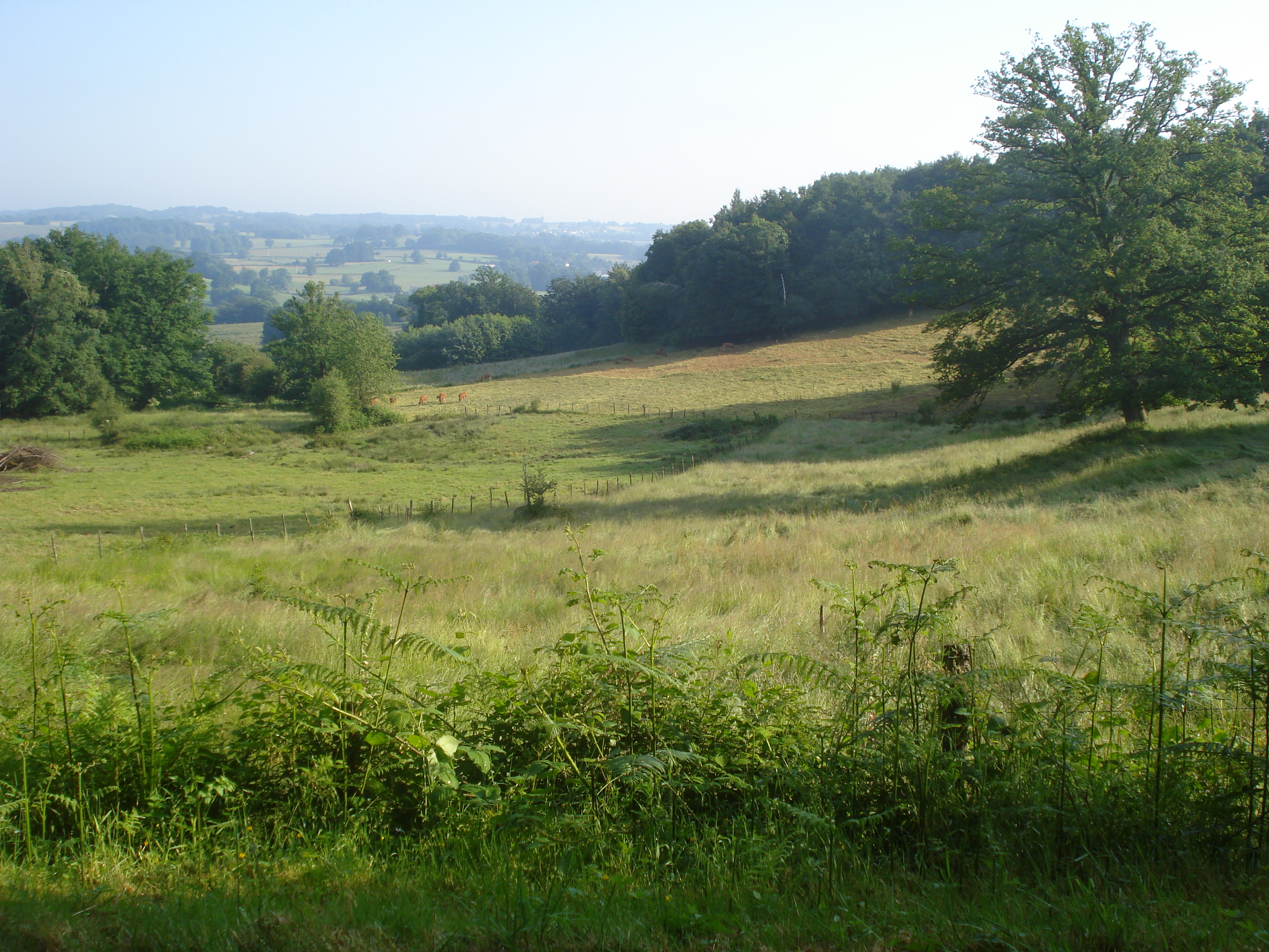 Landscape near Chamborand (Creuse, Fr)